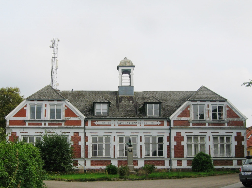 Bogø Navigationsskole. Main building (1885). Architect: Emil Blichfeldt.